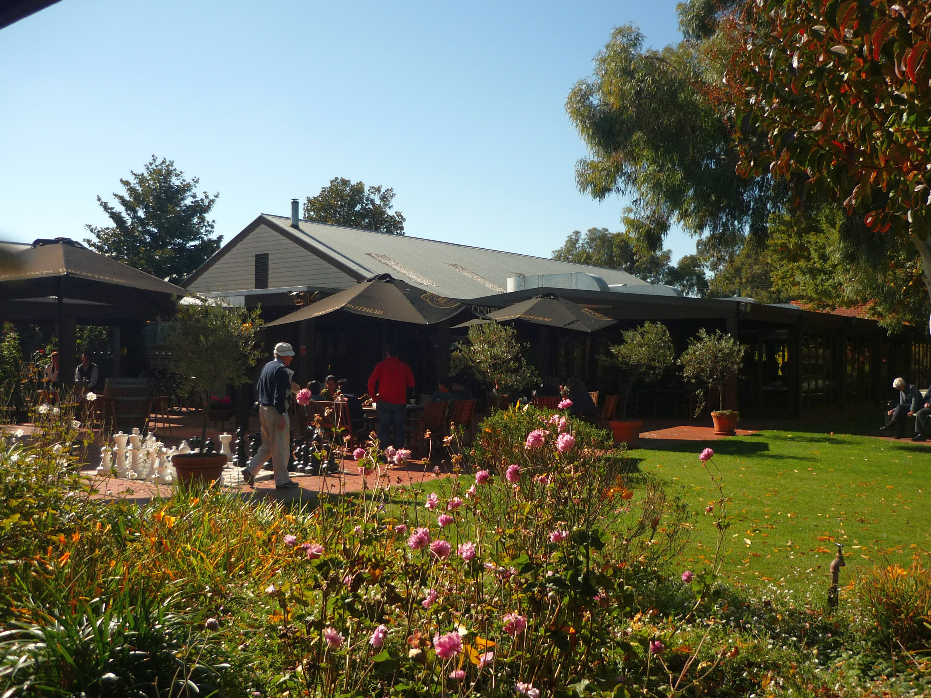 Photo of the gardens at the Brown Brothers Milawa Vineyard